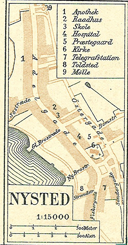 Map of Nysted on Lolland in Denmark